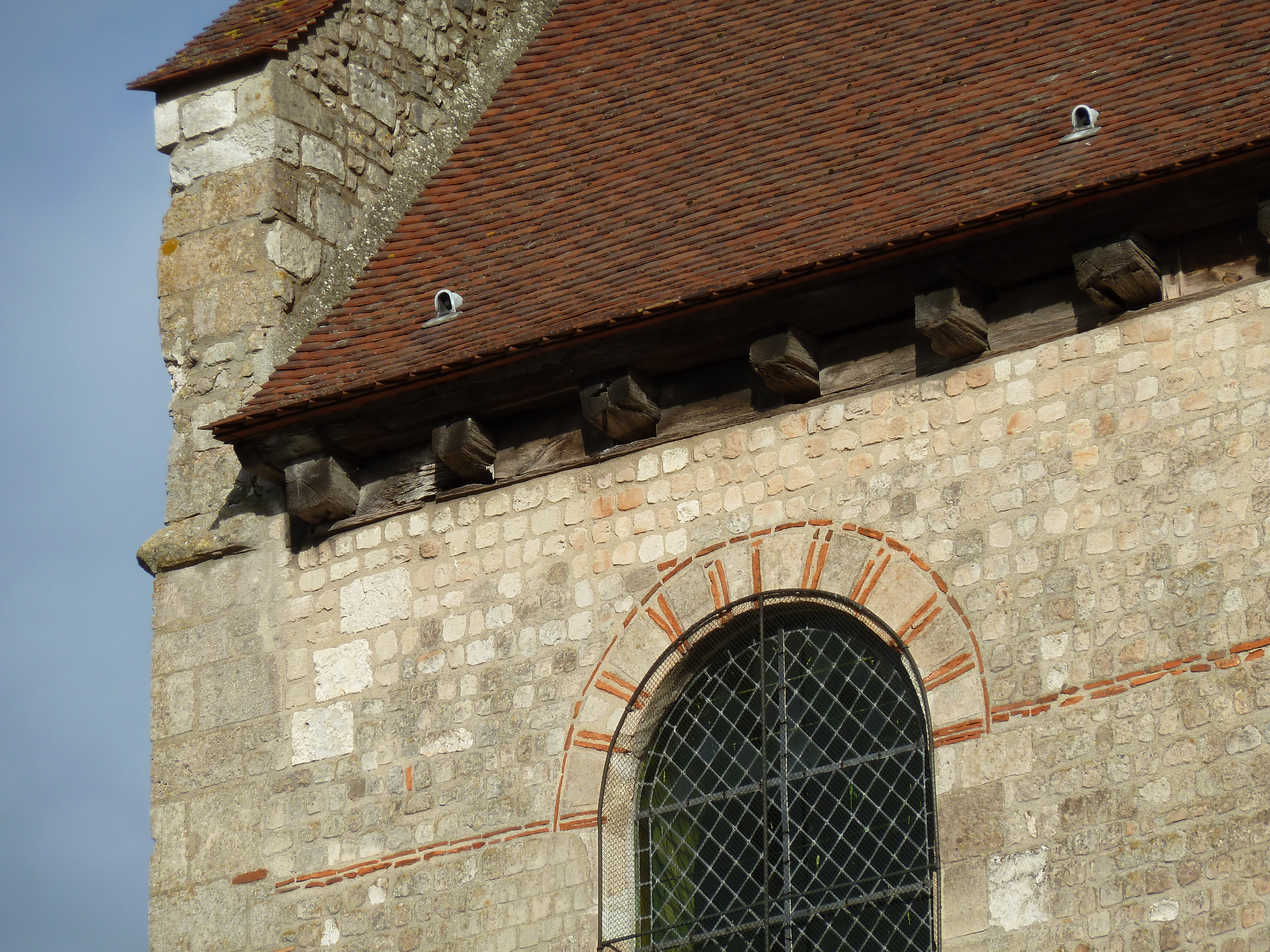 Beauvais (département of Oise, Picardie région, France). Church of Notre-Dame de la Basse Oeuvre (Xth century), former cathedral of Beauvais, partially destroyed for the construction of the Gothic cathedral, which remained unfinished. Detail of the South facade.